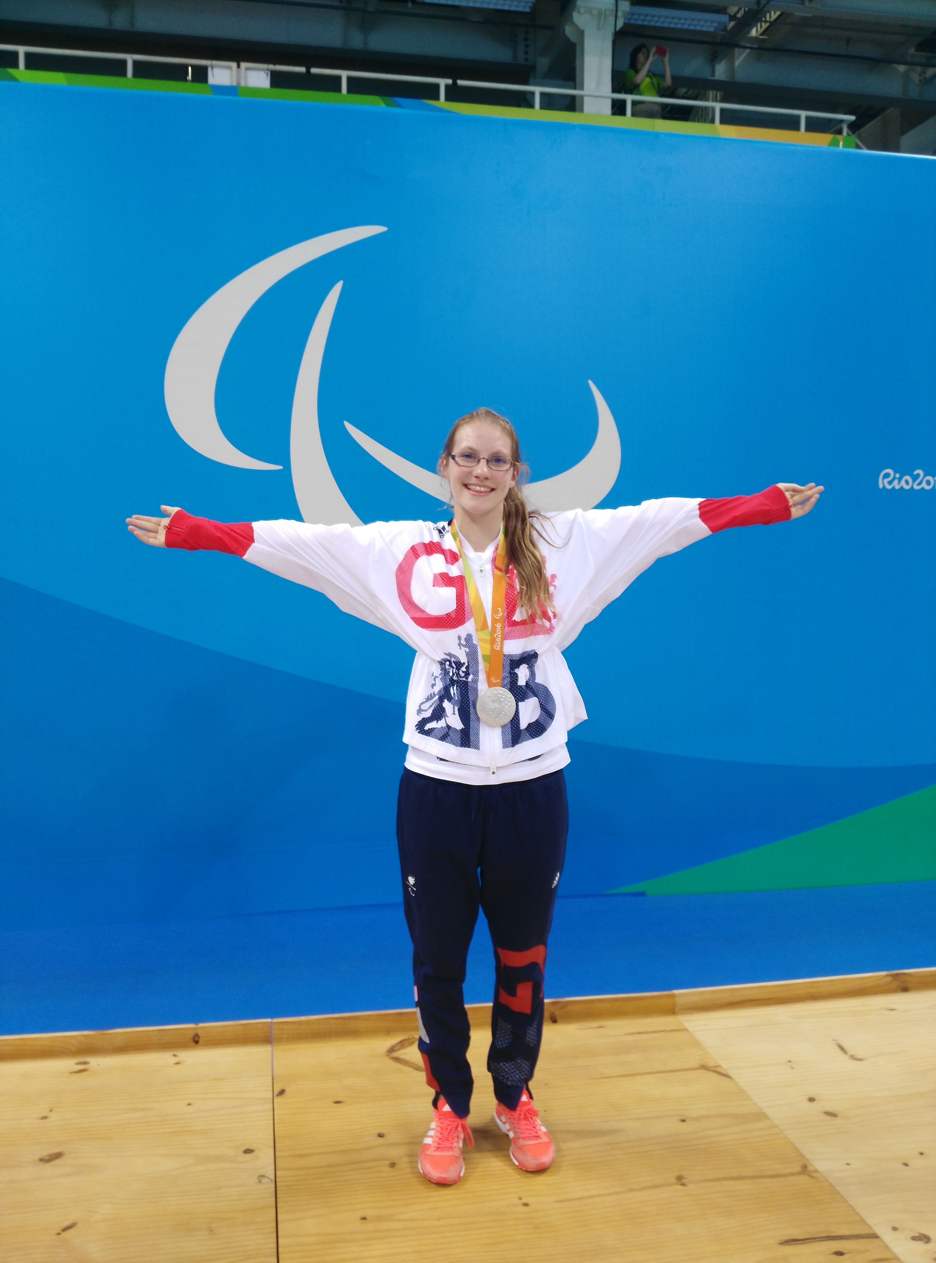 Rio2016